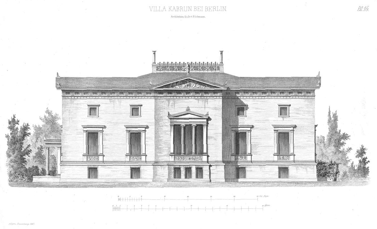 "Villa Kabrun" built in 1865-67 by architects Ende & Böckmann for one Herr Kabrun-Oberau in Berlin-Tiergarten, current address is Rauchstraße 17-18. This lithographic plate shows a frontal view of the building exterior.